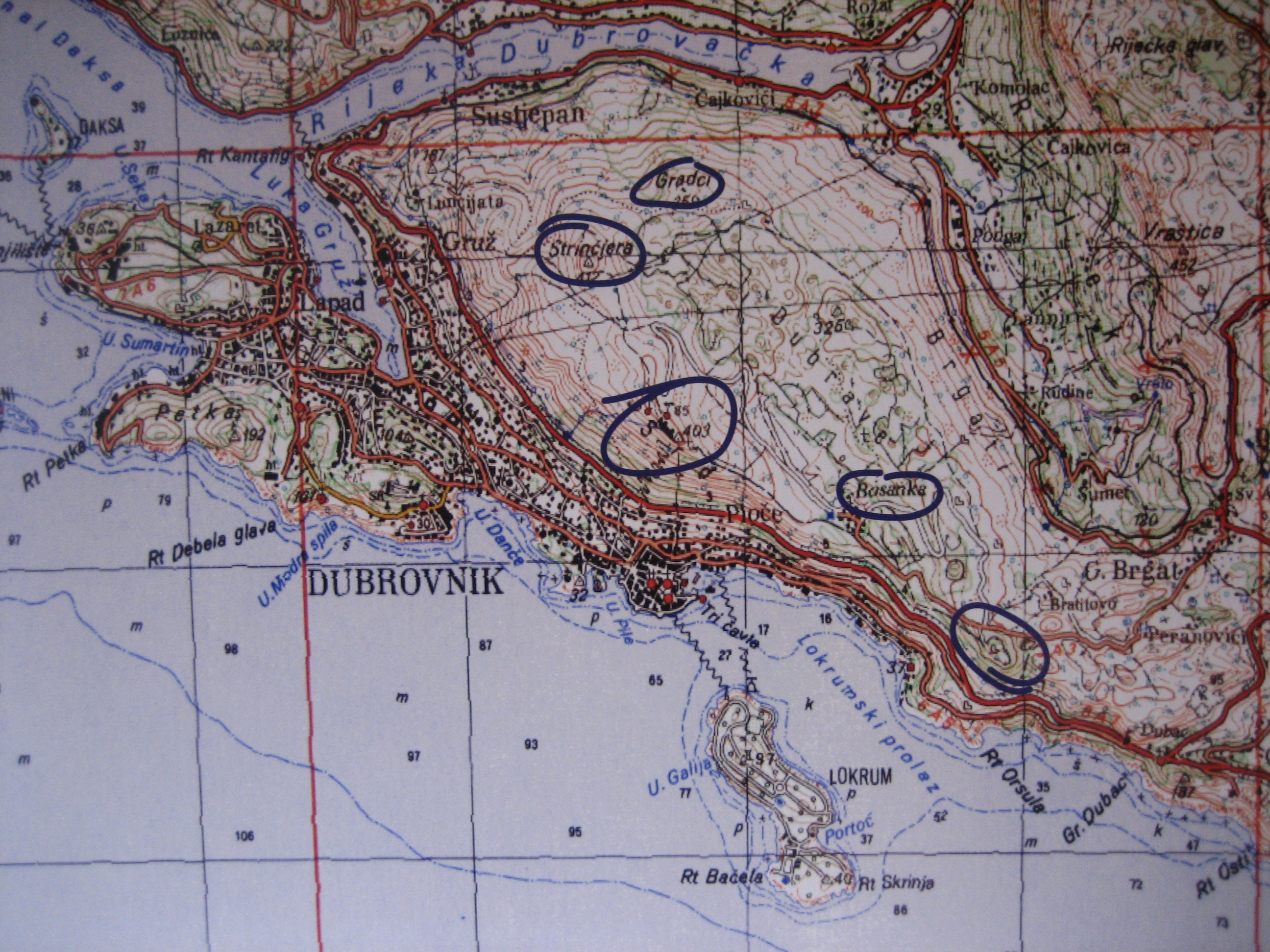 War map of Dubrovnik under occupation